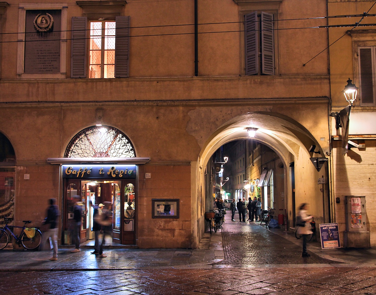 Night view of Caffè Teatro Regio in Parma, Italy.